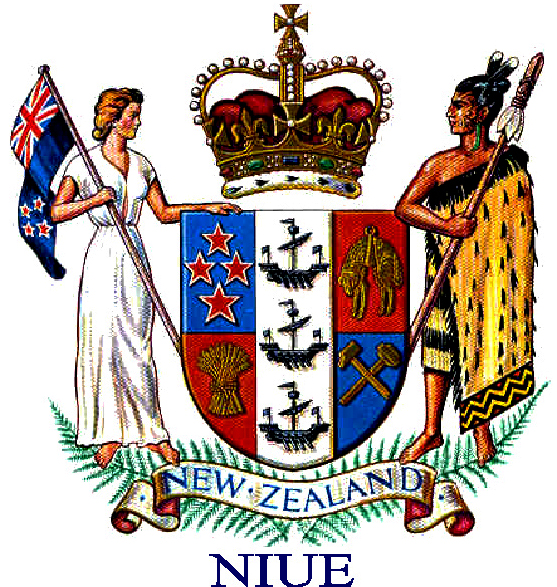 Coat of Arms of Niue